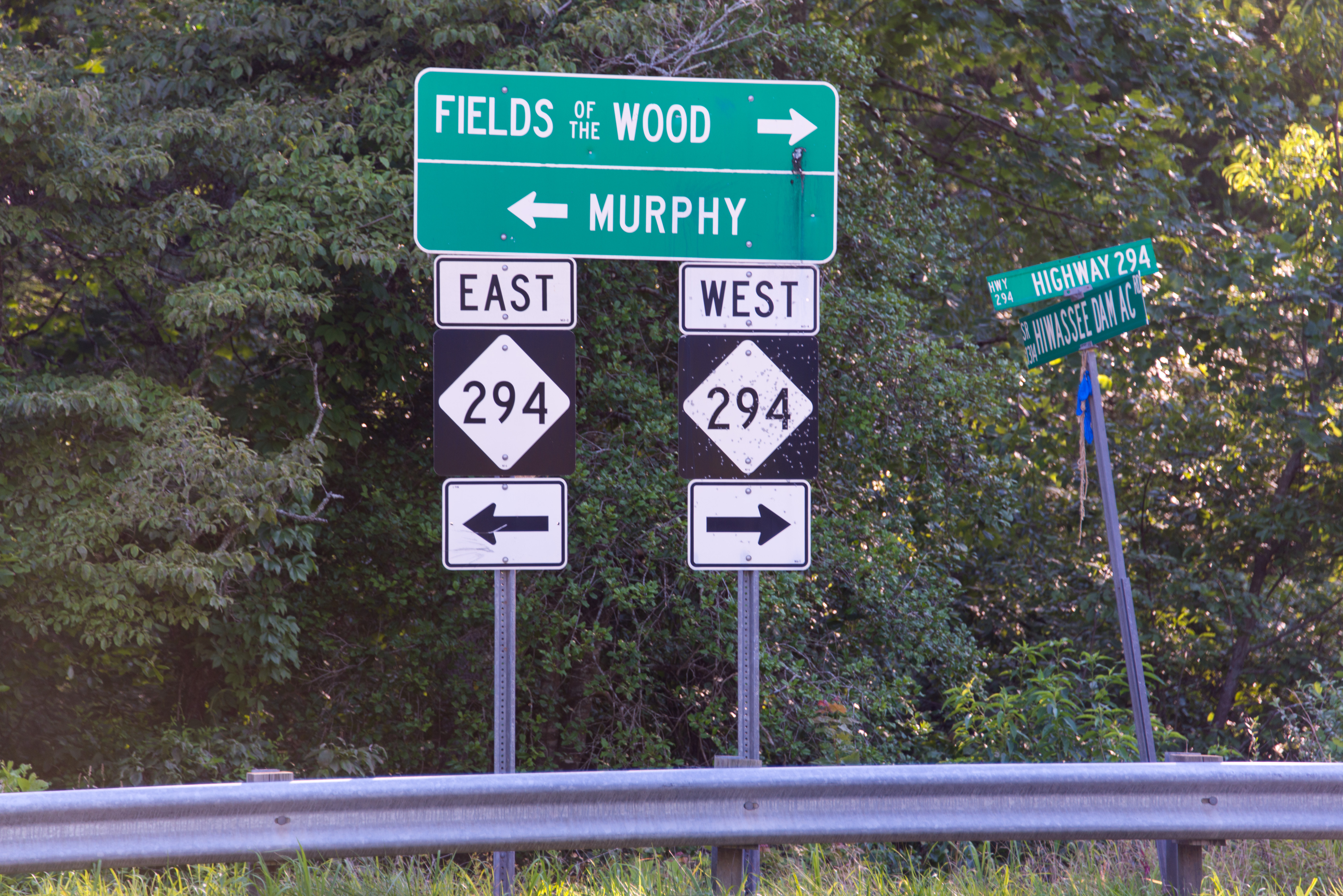 North Carolina Highway 294 directional and destination sign, at the intersection of Hiwassee Dam Access Road (SR 1314).